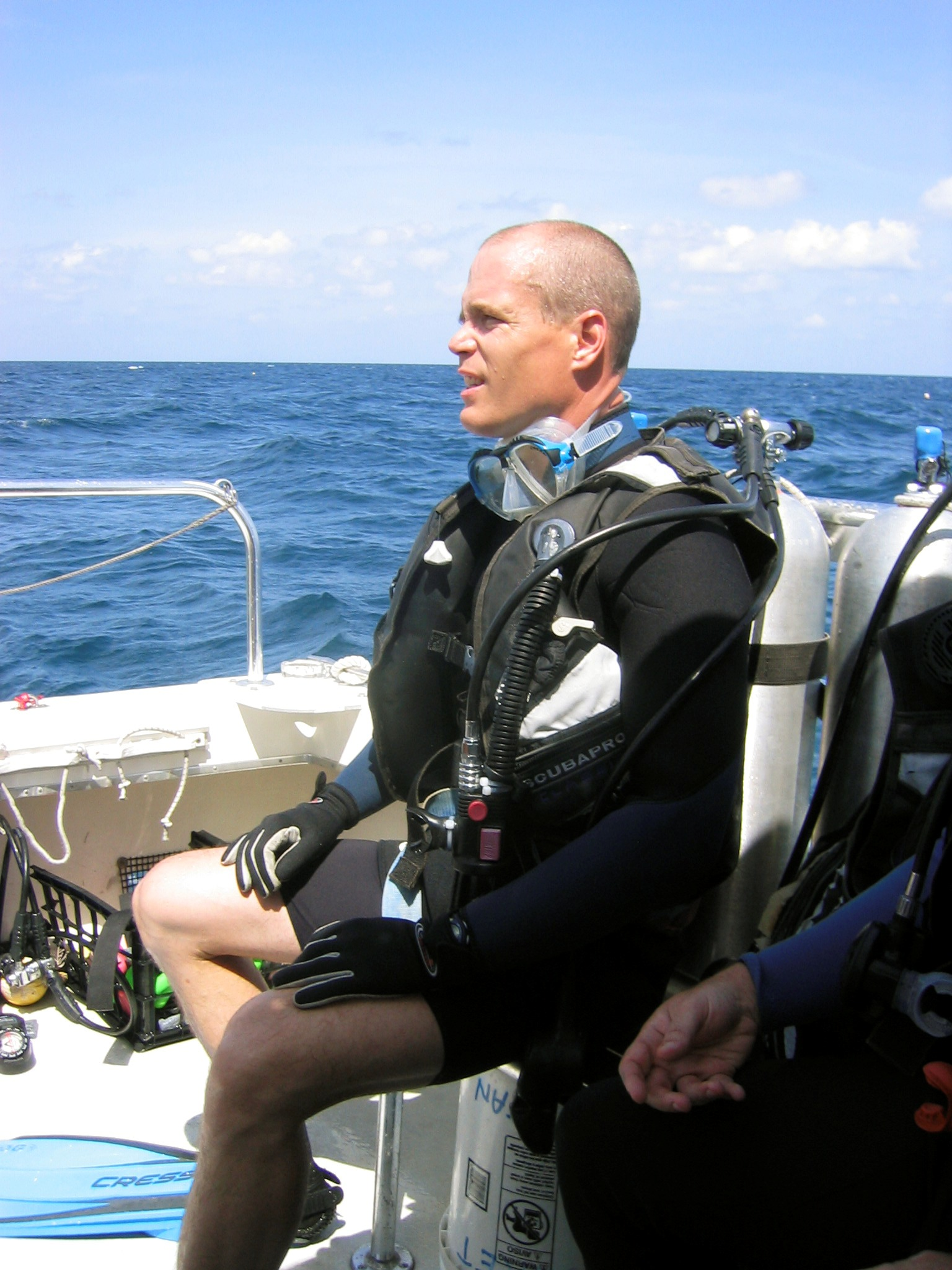 Canadian physician and NEEMO 7 aquanaut Craig McKinley in SCUBA gear prior to a training dive. From NASA photo in public domain.